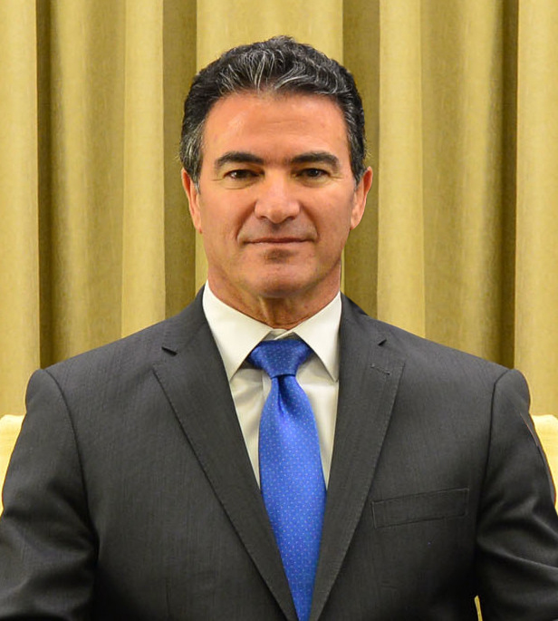 The President Reuven Rivlin, Israeli Prime Minister Benyamin Netanyahu and the head of Mossad, Yossi Cohen, presented certificates of merit to twelve outstanding employees of the institution in 2016. Sunday twenty-fifth of Kislev Tsa"z, 25 December 2016. Photo Credit - Kobi Gideon / GPO.